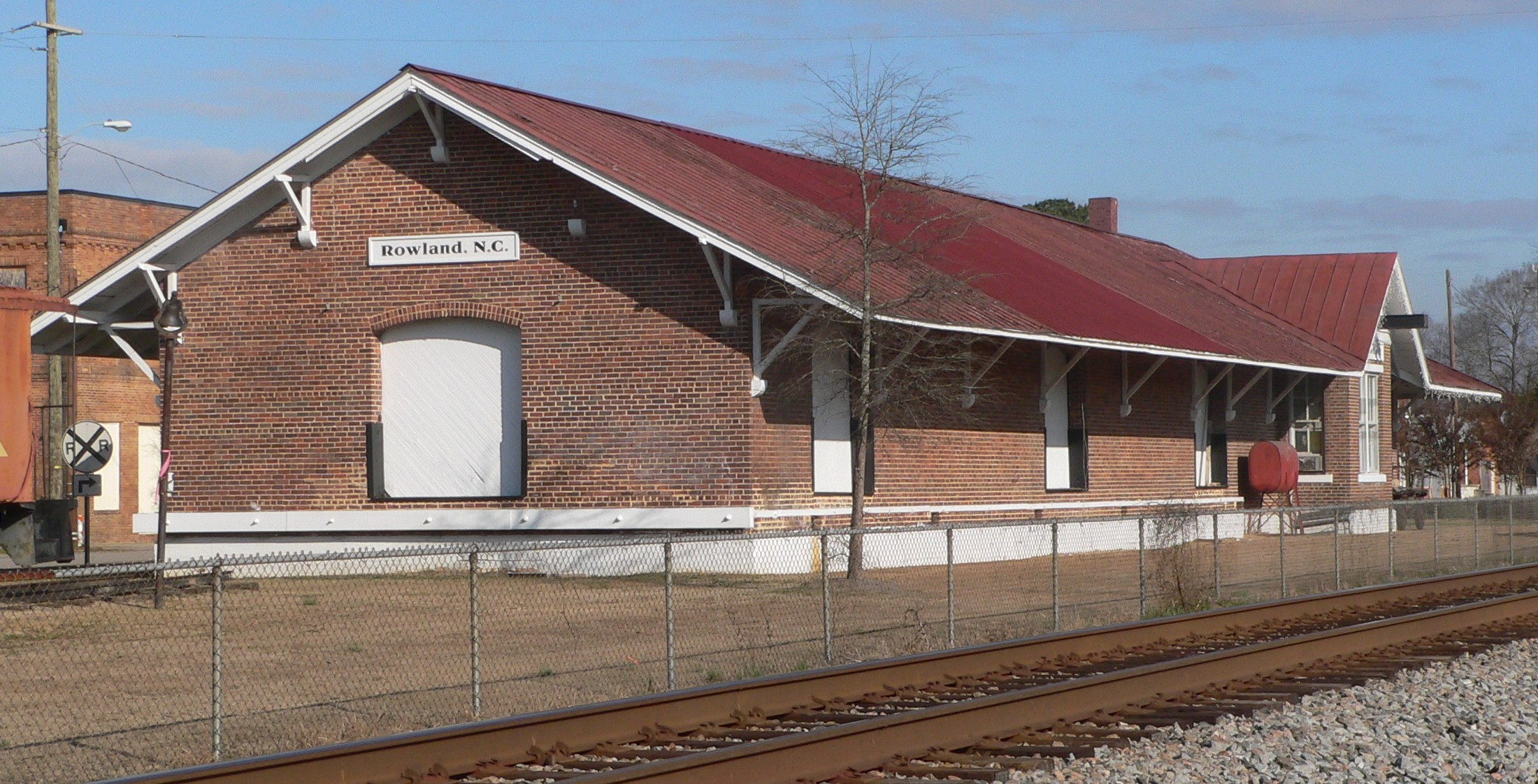 Railroad depot, now McMurray McKellar Historical Museum, in Rowland, North Carolina; seen from the south.